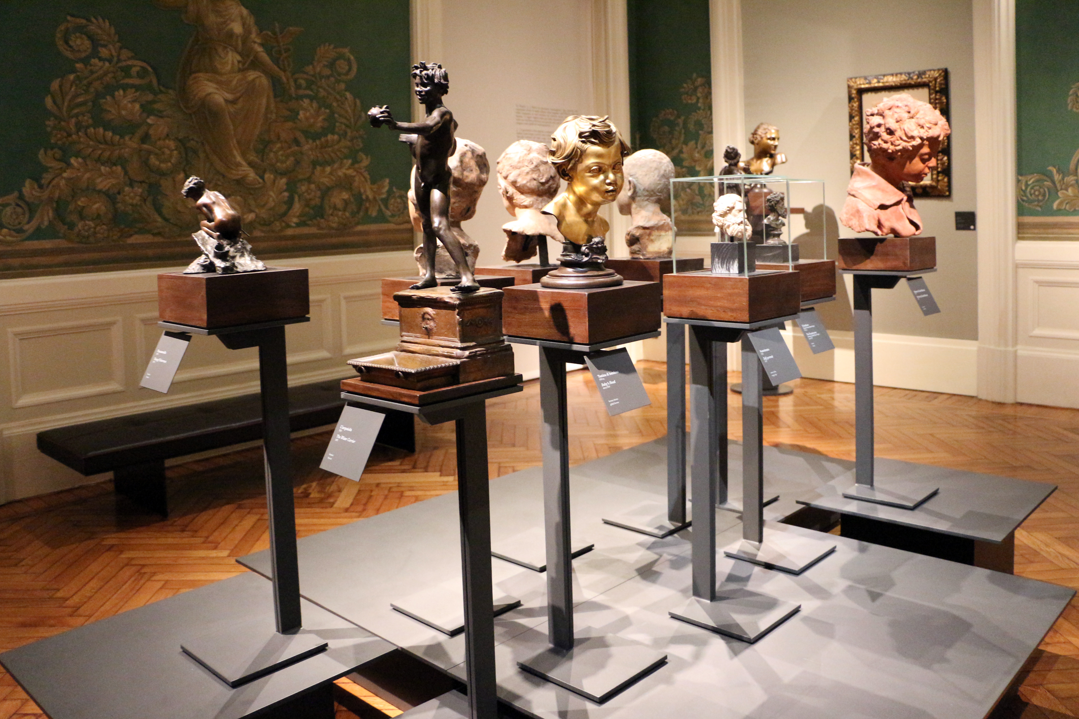 Palazzo Zevallos (Naples)